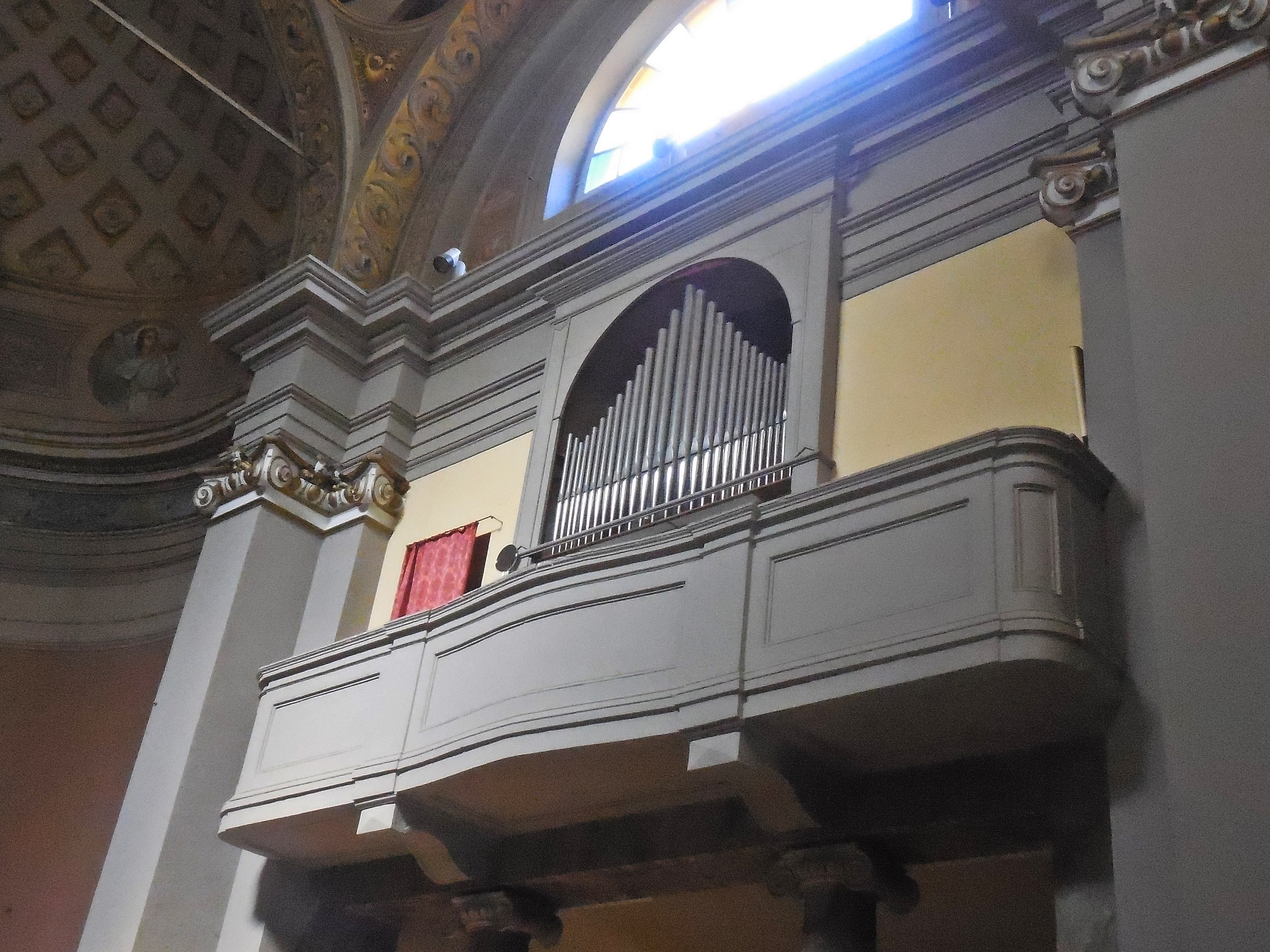 SS Michael & Nazarius (Gaggio Montano)